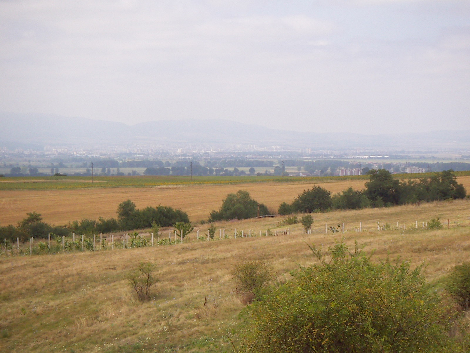 View from village Lokorsko to Sofia, Bulgaria